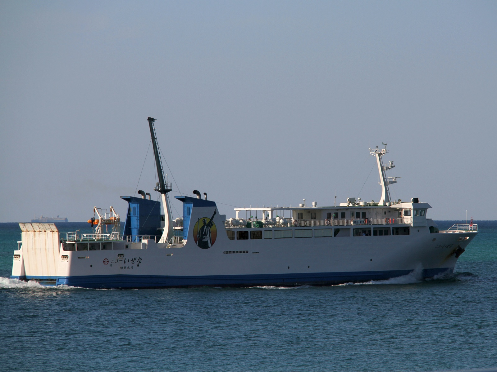 The ferry New Izena, later renamed Mikasa